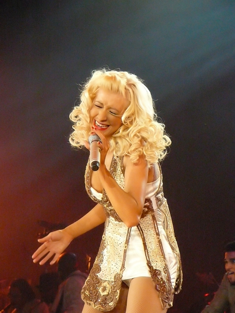 Christina Aguilera singin' "Come on Over"